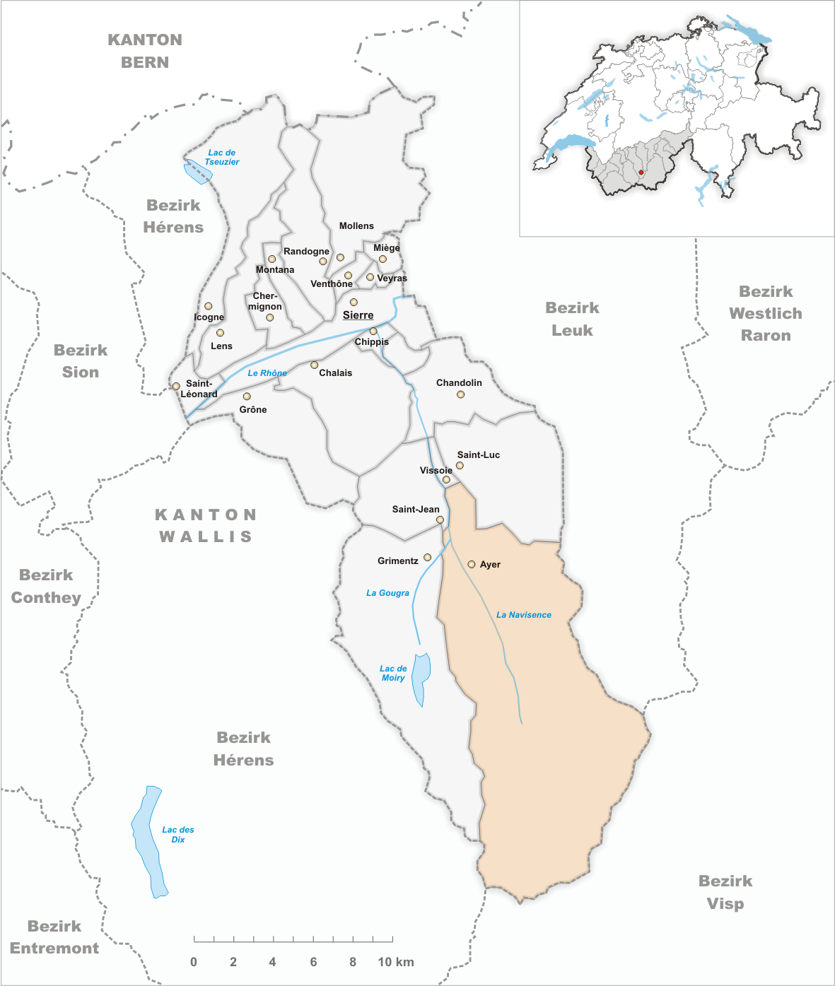 Municipality Ayer